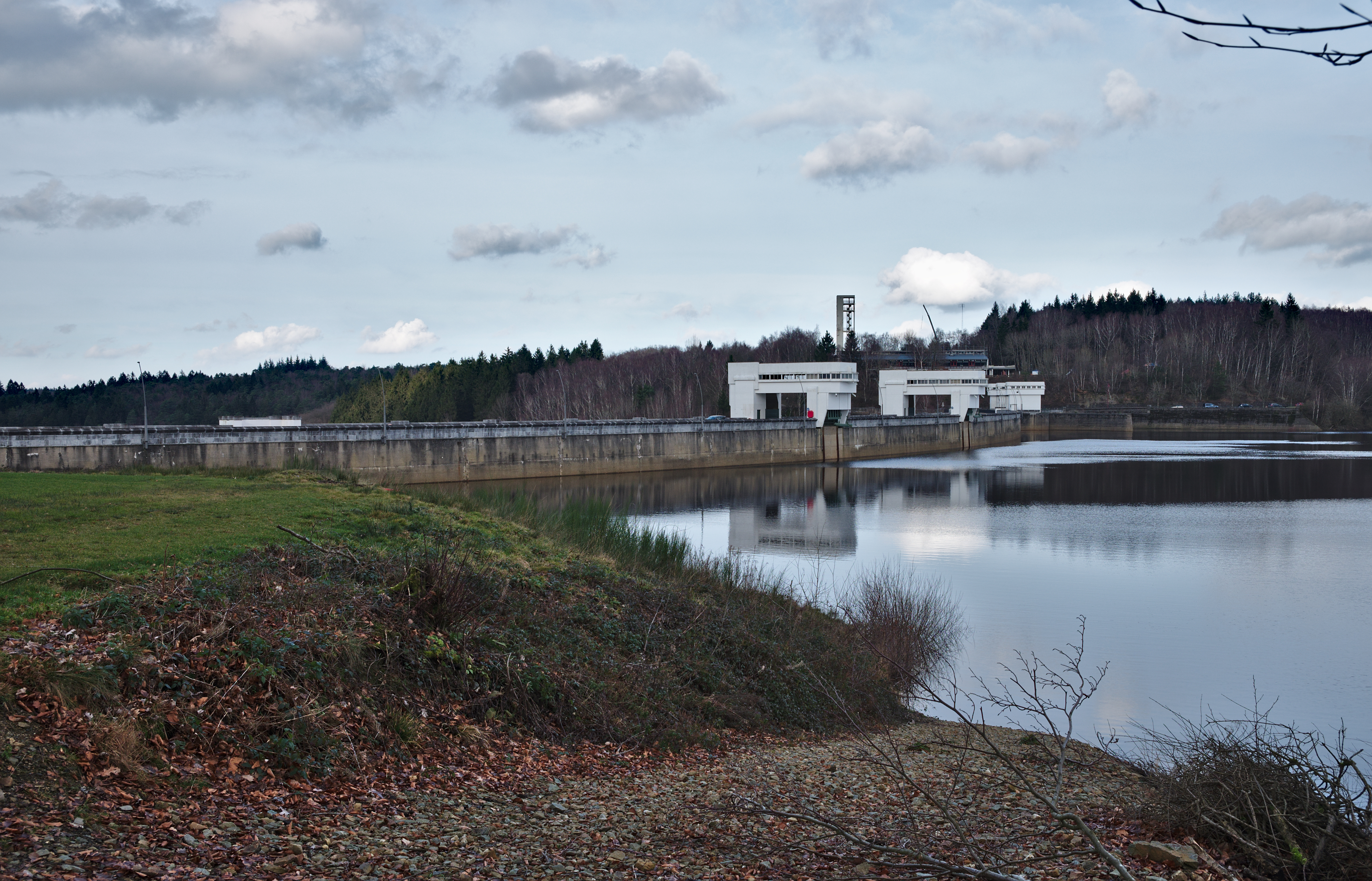 Lake Eupen and the Dam of the Vesdre, Belgium (VeloRoute intersection 41, DSCF3716)